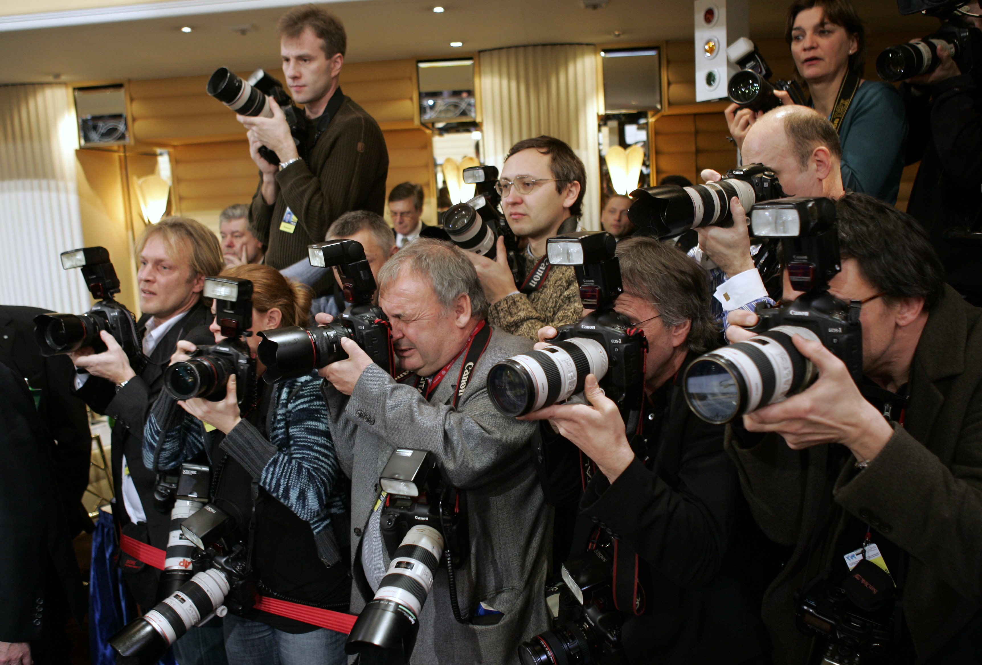 43rd Munich Security Conference 2007: Impressions before conference beginning.